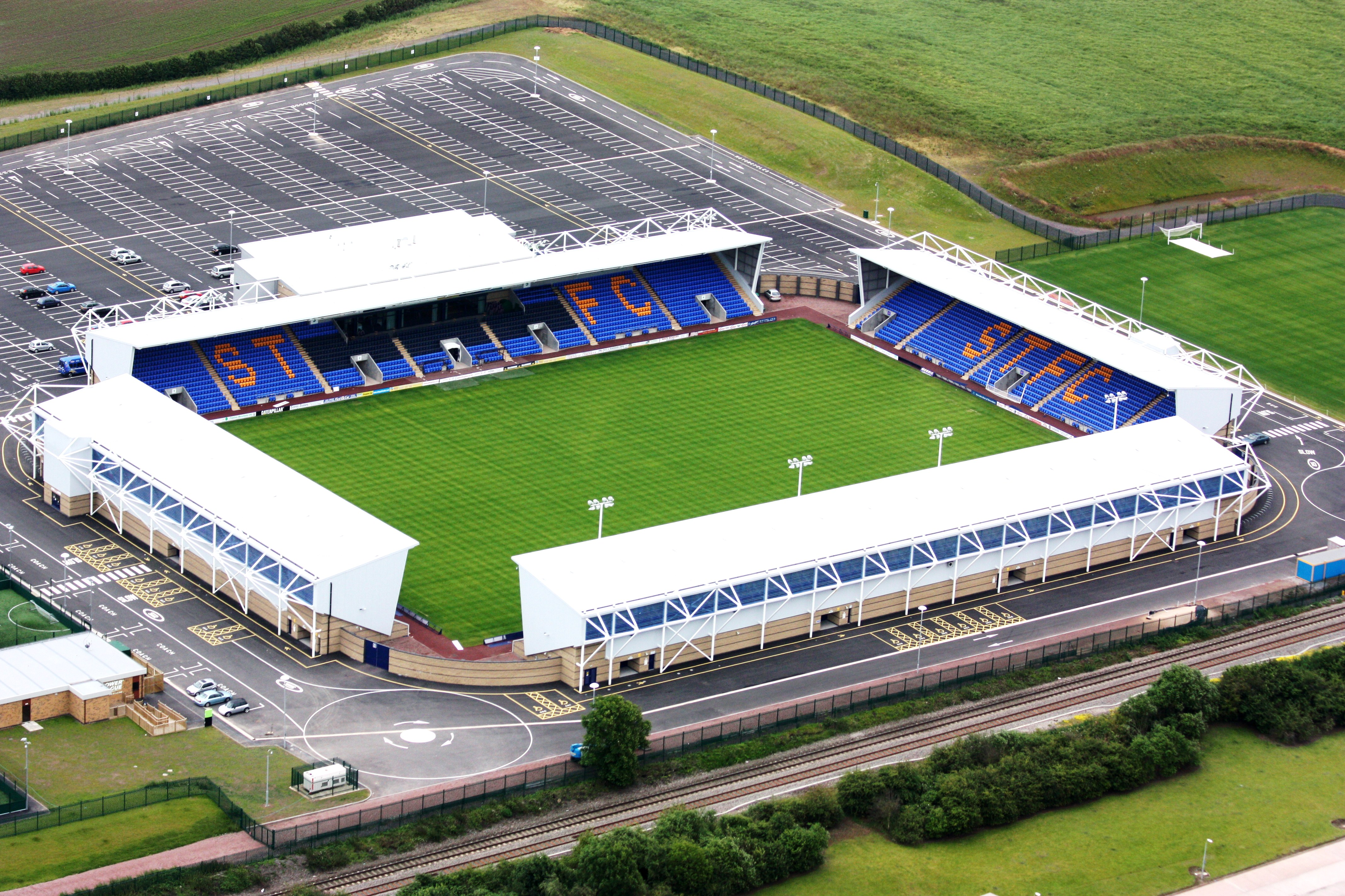 The New Meadow, stadium of Shrewsbury Town FC, as seen from a Grob Tutor of UBAS at RAF Cosford